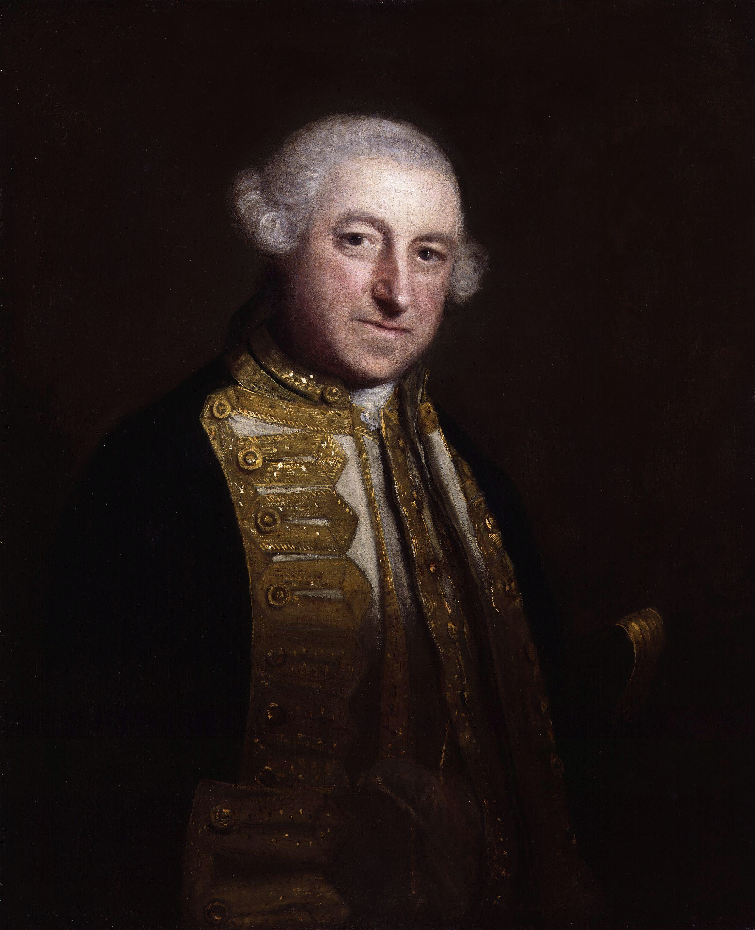 All images in this batch have been confirmed as author died before 1939 according to the official death date listed by the NPG.